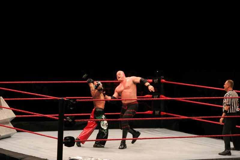 Kane Battles Rey Mysterio in Milan,Italy